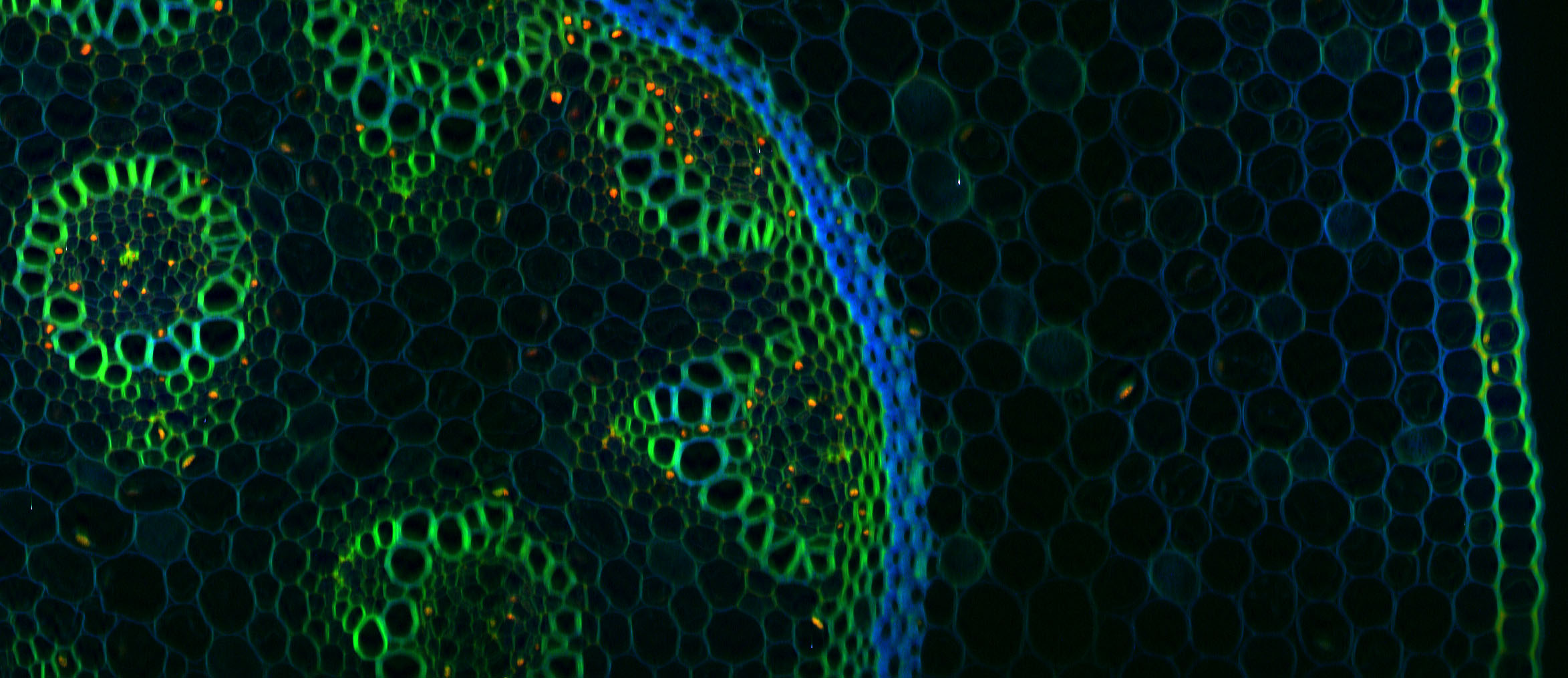 Cross section through Convallaria rhizome, fluorescent staining